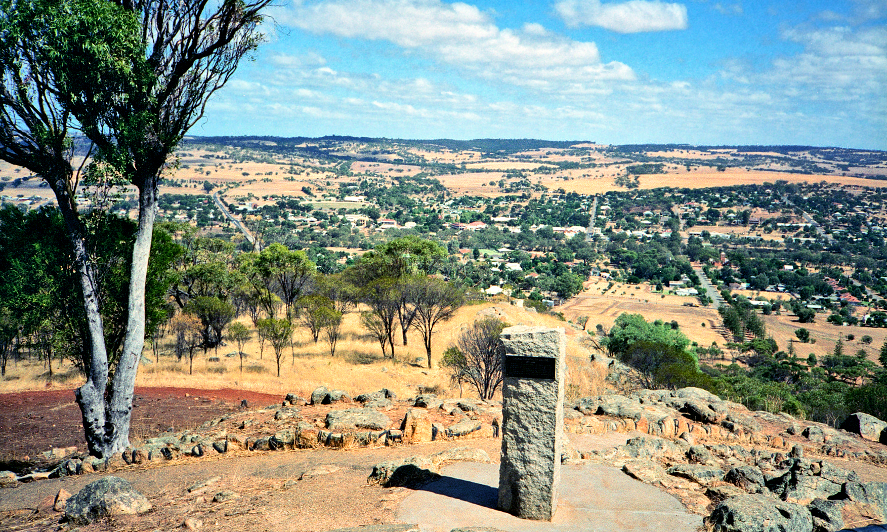 Taken 1994 by Jeff Crisdale.